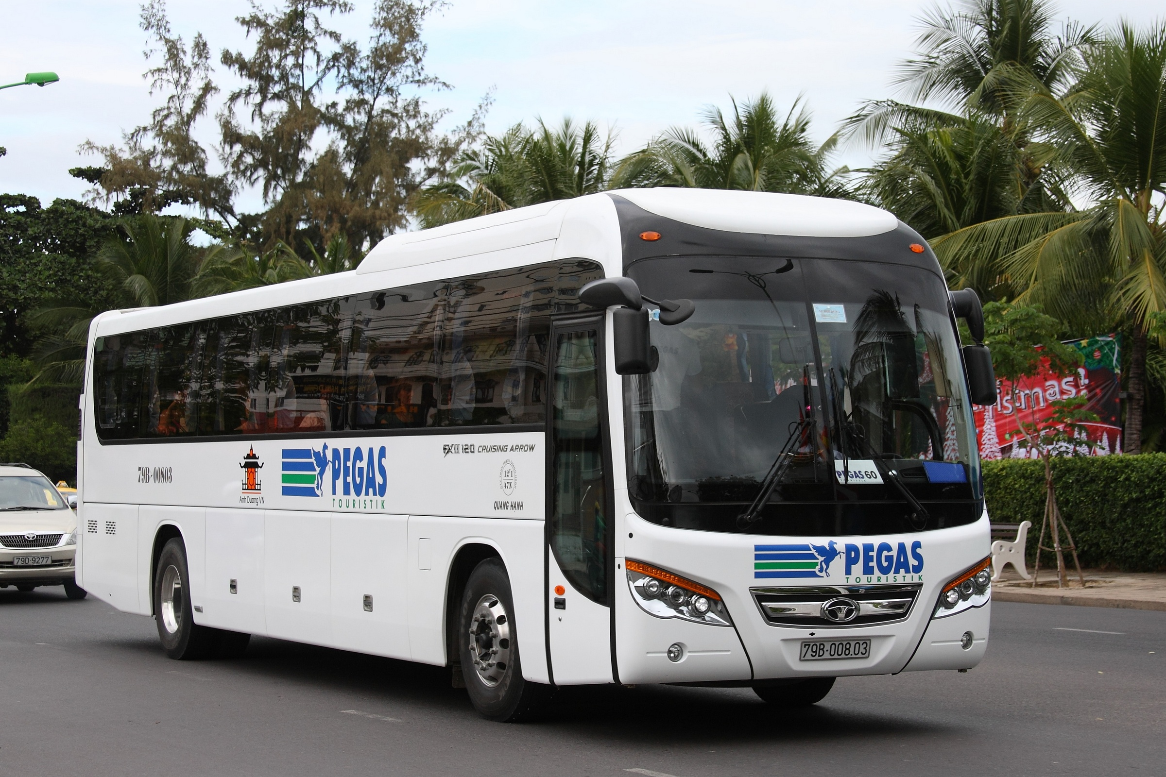 Pegas Touristik bus in Nha Trang, Vietnam. Pegas Touristik is a Russian tour operator established in 1994.